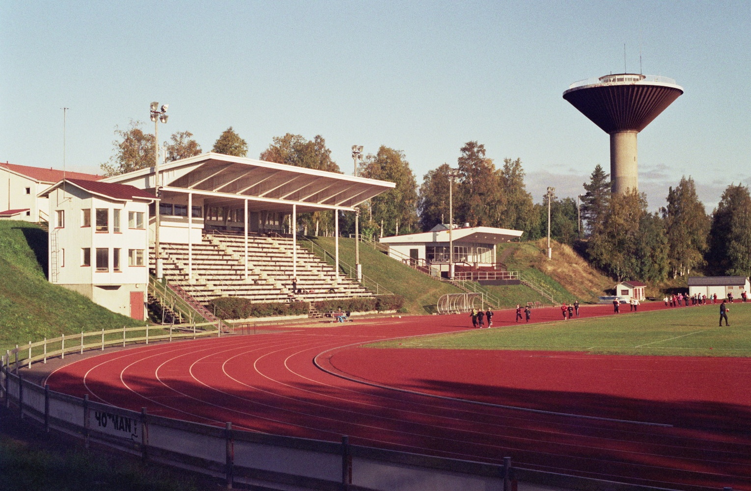 Pohja Stadium in Tornio, Finland.